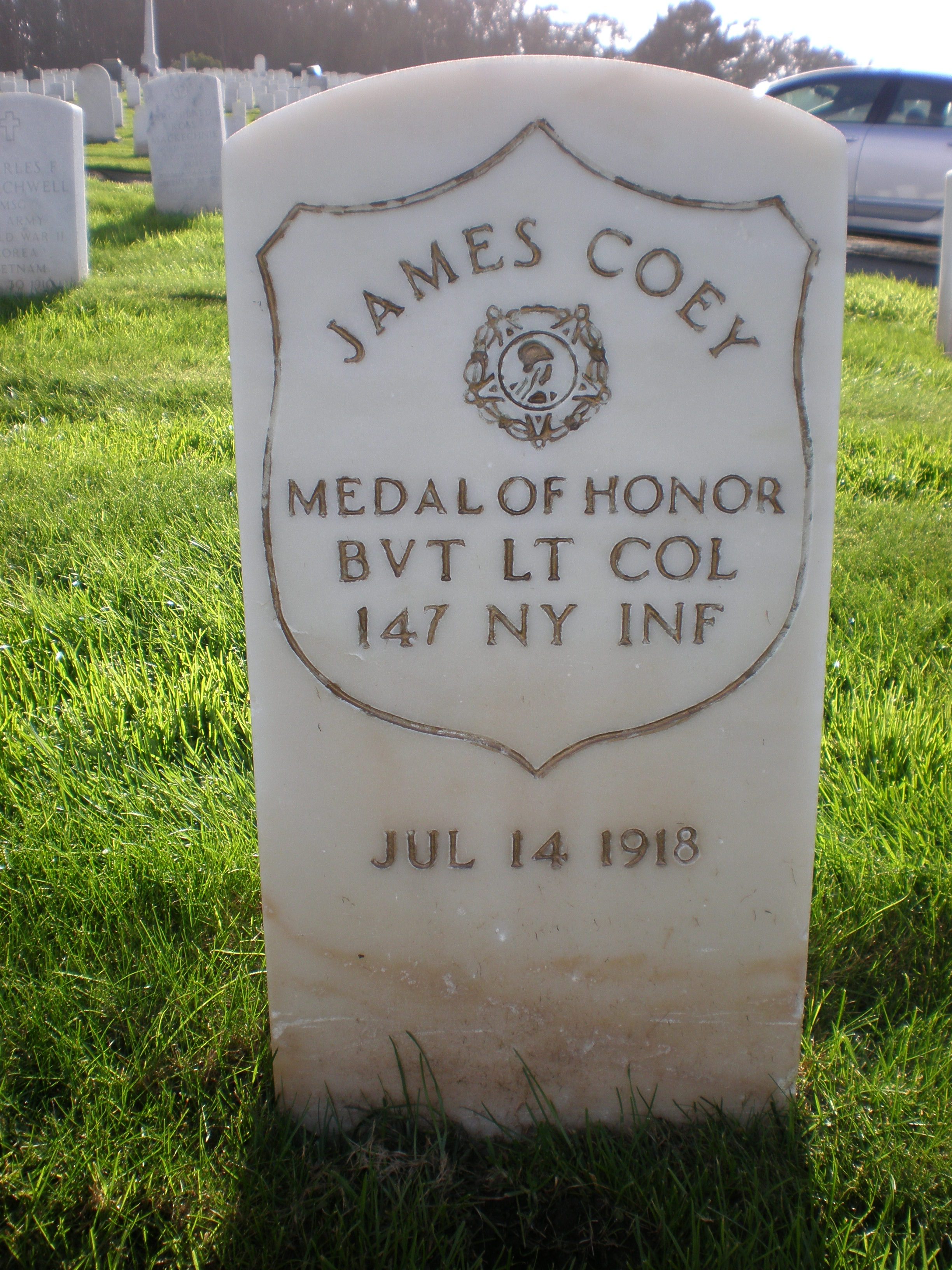 The headstone of Maj. James Coey, Medal of Honor recipient, at San Francisco National Cemetery in the Presidio of San Francisco.